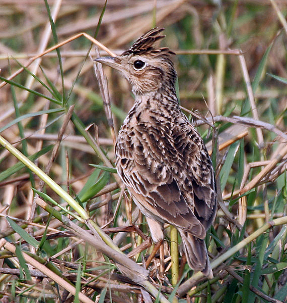 Oriental Skylark (Alauda gulgula) in Kolkata, West Bengal, India.